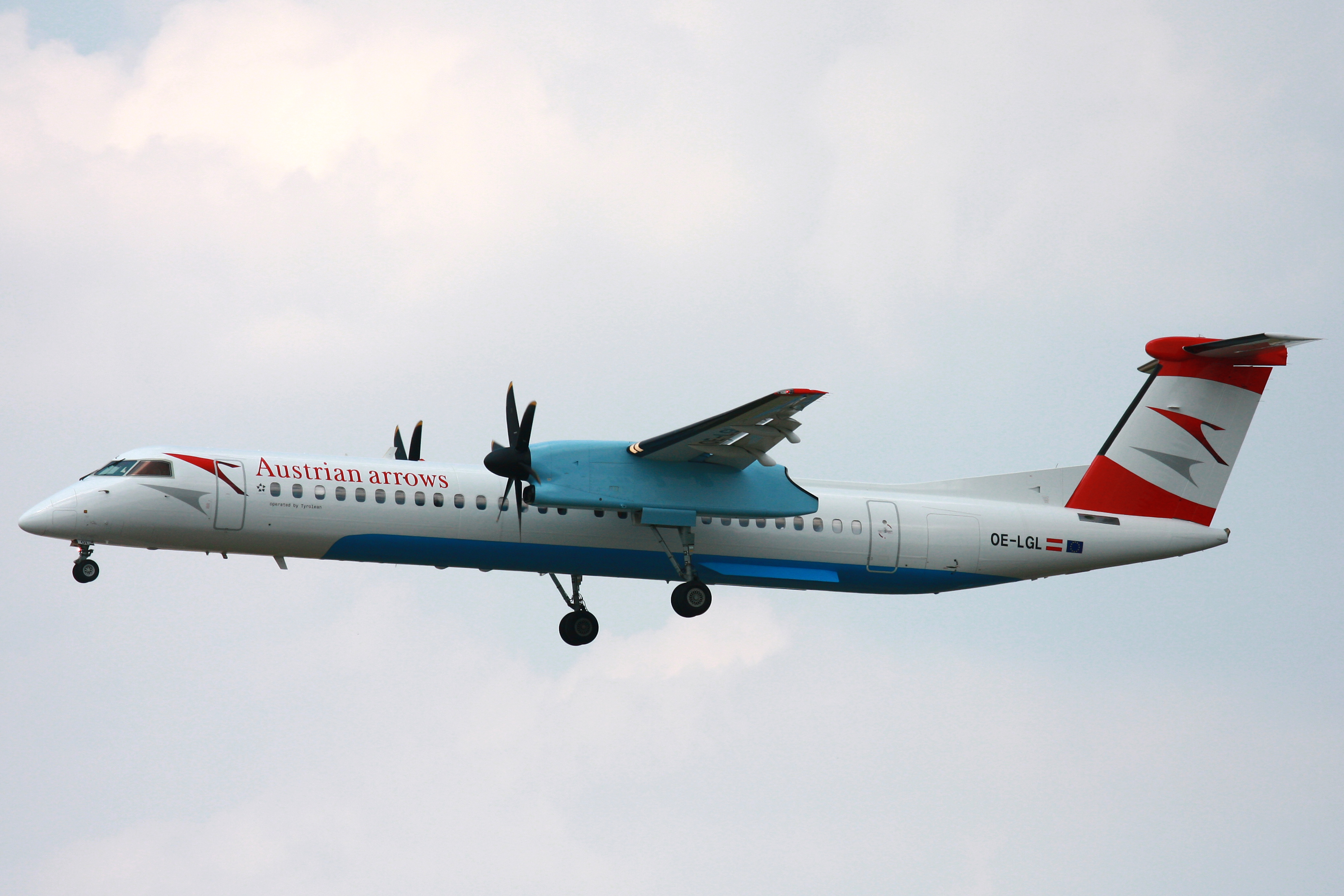 A Dash 8-Q400 of Austrian Arrows landing at Frankfurt Airport Other photographs in thissequence : File:2010-06-30 Dash8 AustrianArrows OE-LGL EDDF 01.jpg File:2010-06-30 Dash8 AustrianArrows OE-LGL EDDF 02.jpg